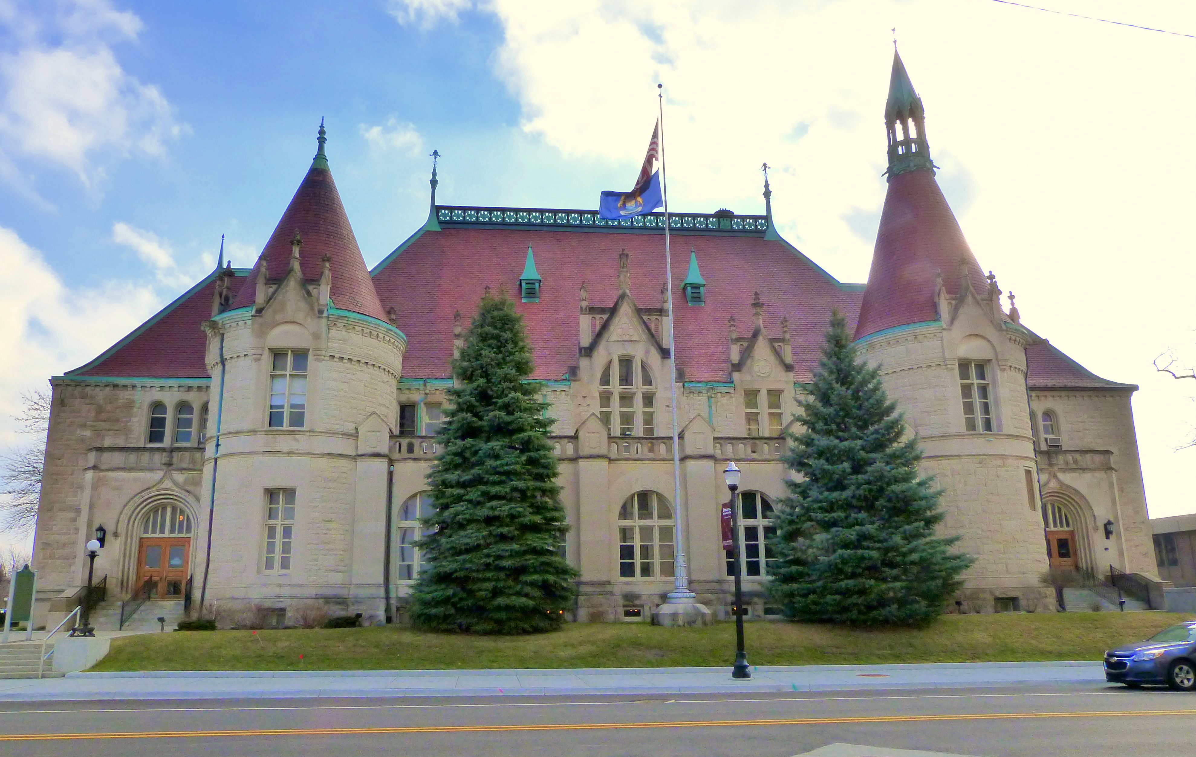 The Castle Museum of Saginaw County History (historically Castle Station post office, built 1898), located at 500 Federal Avenue in Saginaw, Michigan, United States, is listed on the U.S. National Register of Historic Places. It is additionally listed as a contributing ("pivotal') resource in the National Register-listed Saginaw Central City Historic Residential District.